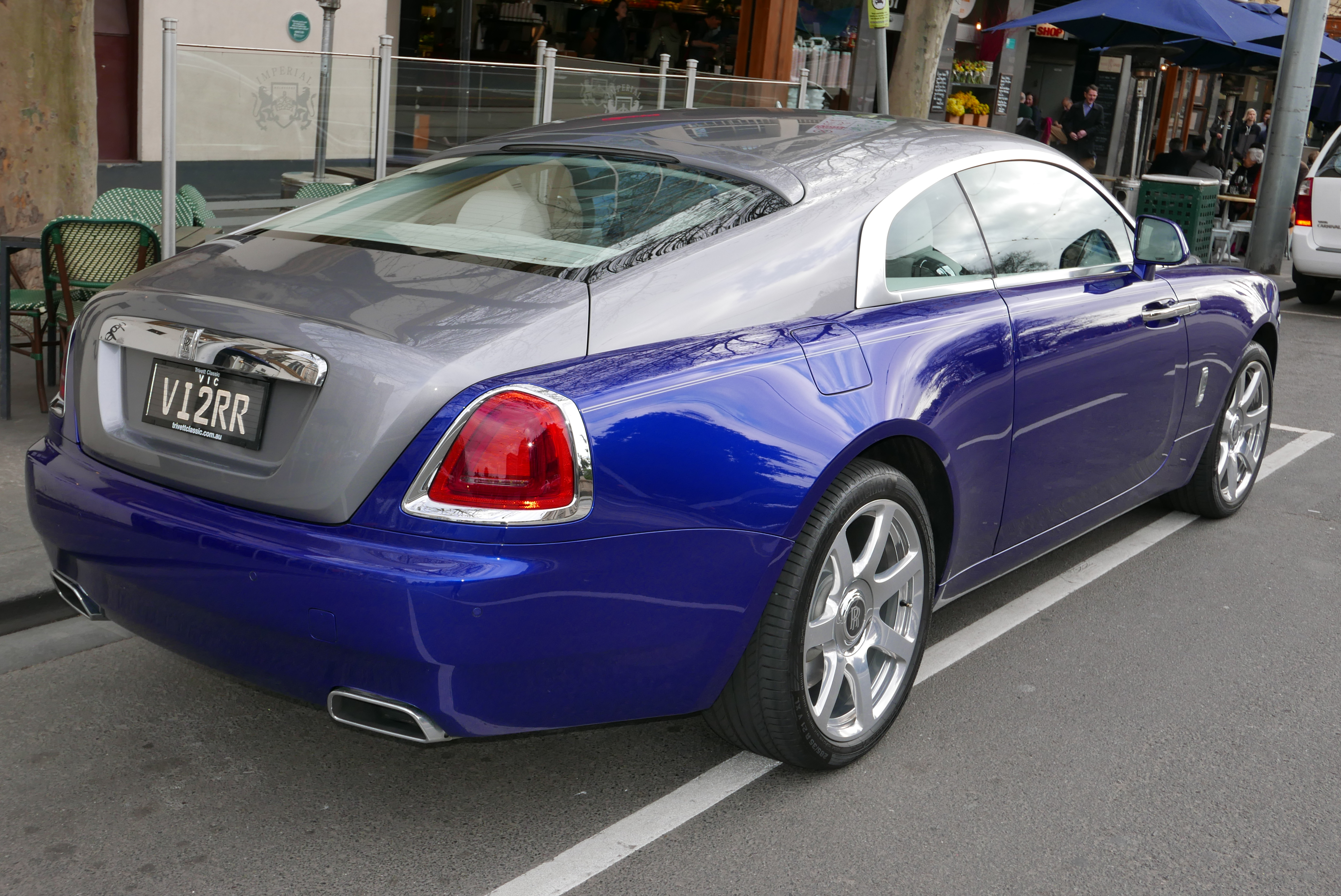 2014 Rolls-Royce Wraith (MY14) coupe. Photographed in Melbourne, Victoria, Australia. Vehicle registration enquiry results Jurisdiction Victoria Registration VI2RR Chassis code SCA665C09EUH24717 Engine code 90270807 Compliance date 2014-11 Year of manufacture 2014